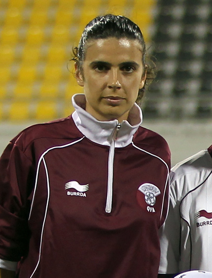 Members of the Qatar women's football team line up prior to their friendly game against Kuwait. Picture by Mohan